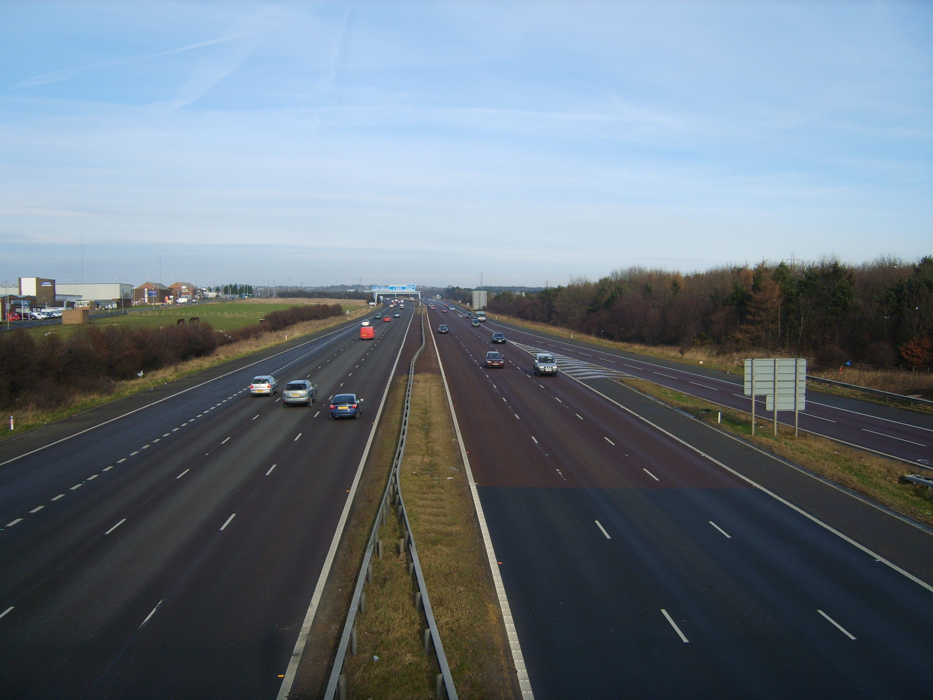 An Image taken in Tyne and Wear, England above the A1(M) motorway of vehicles driving on the left heading north and driving on the right heading south.